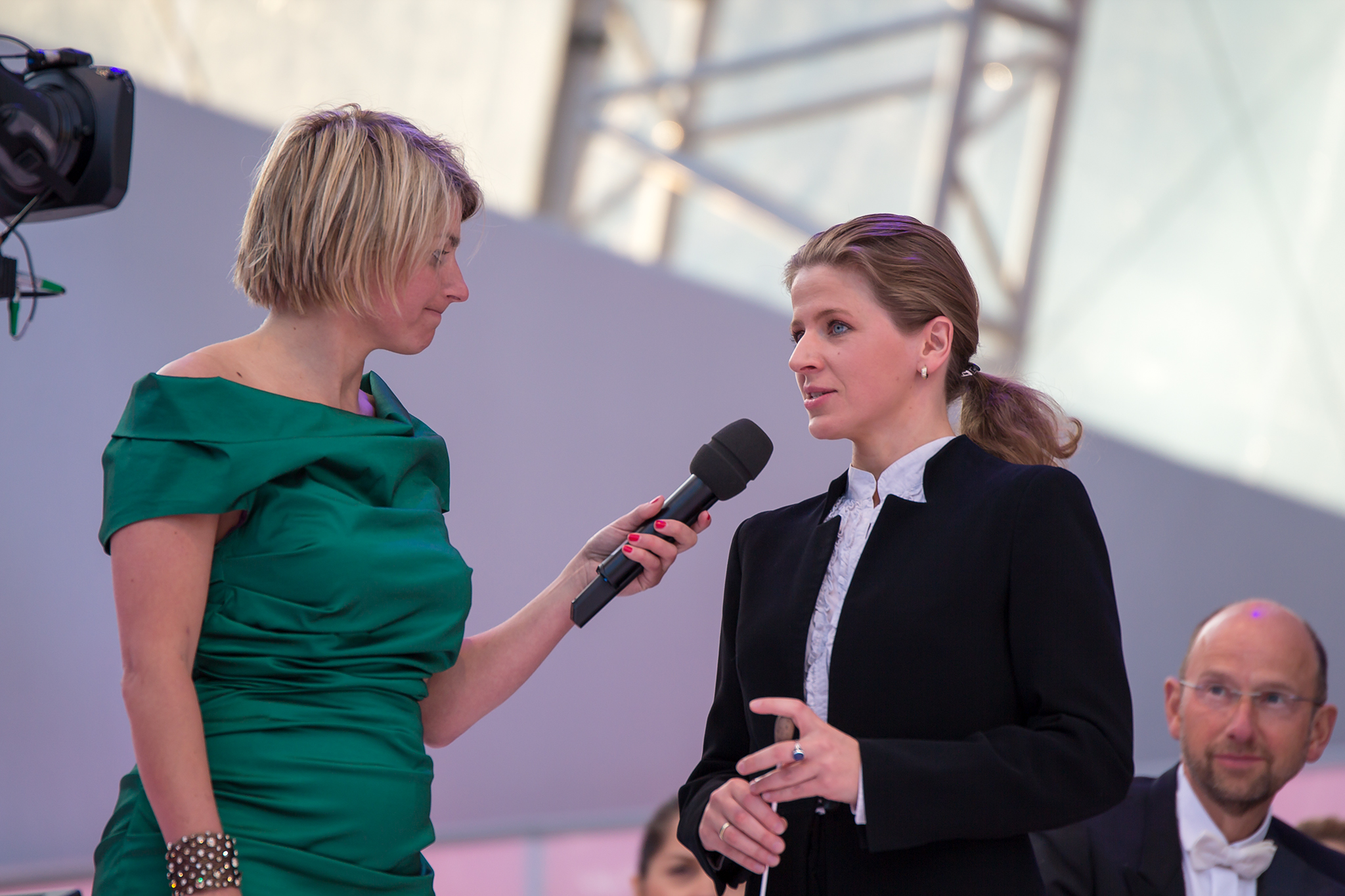 Sabine Heinrich and Kristiina Poska at final rehearsal for Eurovision Young Musicians 2014